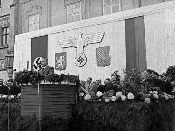 Jaroslav Krejčí giving a speech during the occupation of Czechoslovakia. (In the background: flags of Nazi Germany and the protectorate, coat of arms of Bohemia, Nazi Germany and Morava.)